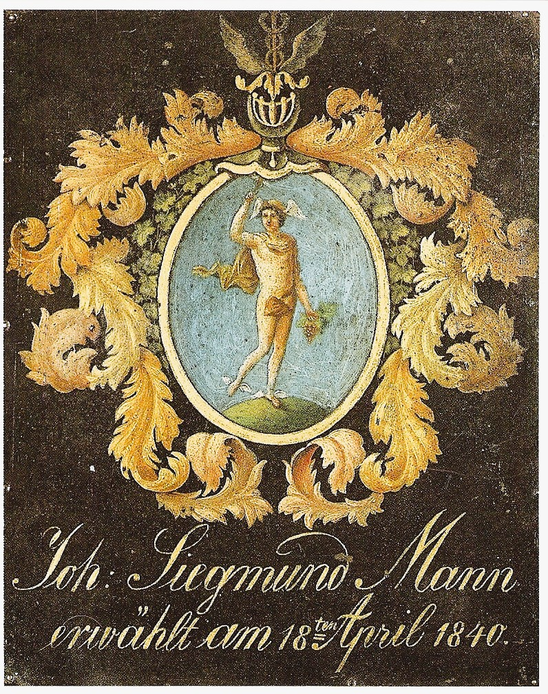 Coat of arms of Lübeck merchant Joh. Siegmund Mann from 1840, when he was elected as supervisor of the St. Annen almshouse in Lübeck, now a museum. The CoA is part of the St.-Annen museums collections. Oil painting on metall.